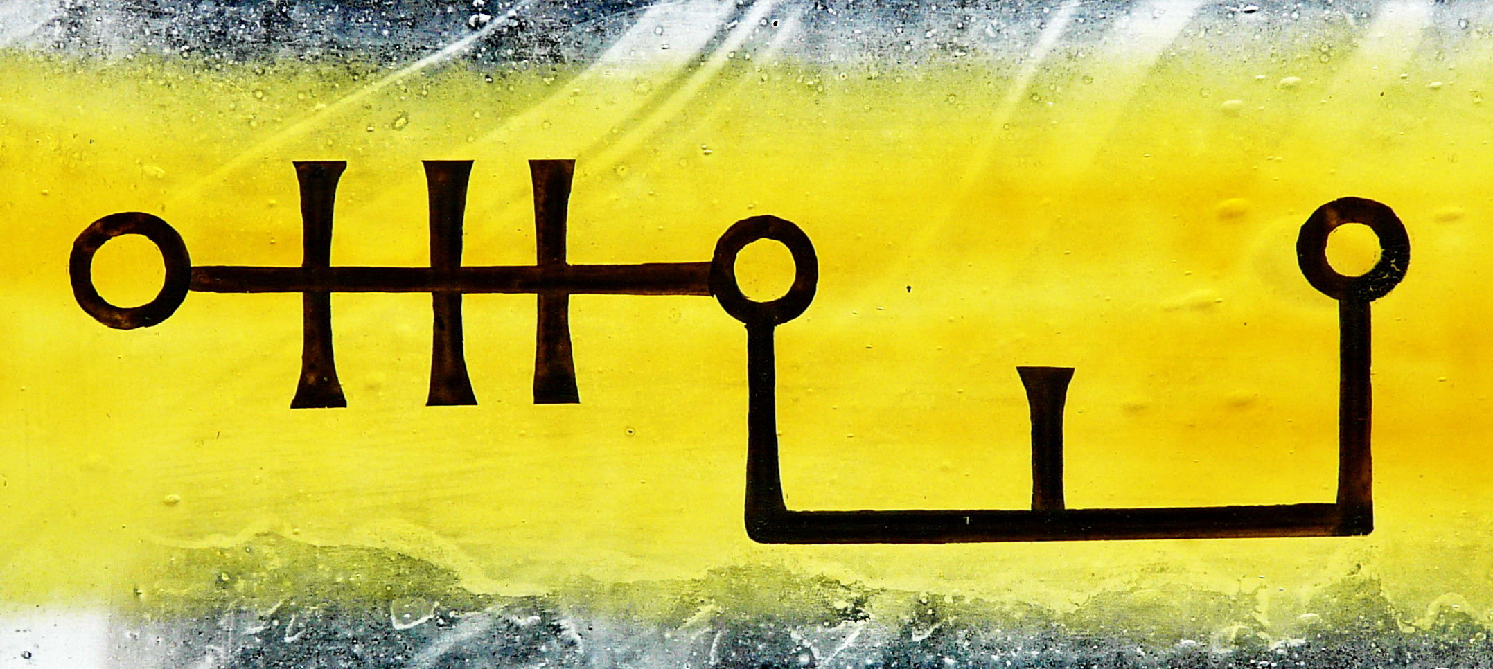 Medieval symbol of the Pleiades from Agrippa von Nettesheim: Occulta Philosophia, 1533